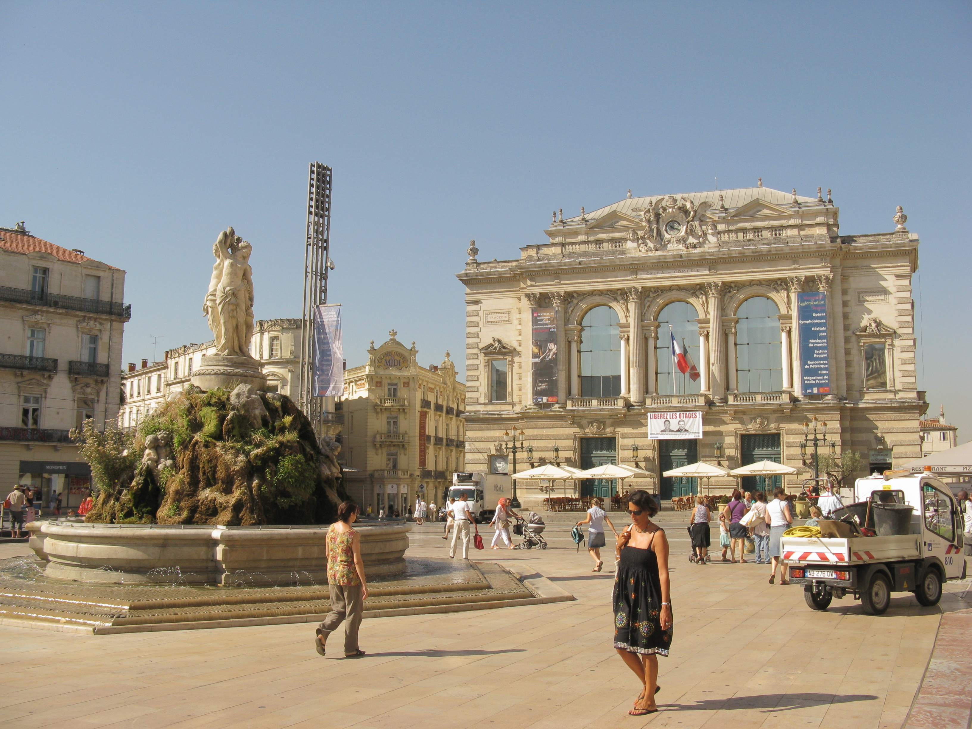 Theatre and fountain on the Place de la Comédie in Montpellier, France.